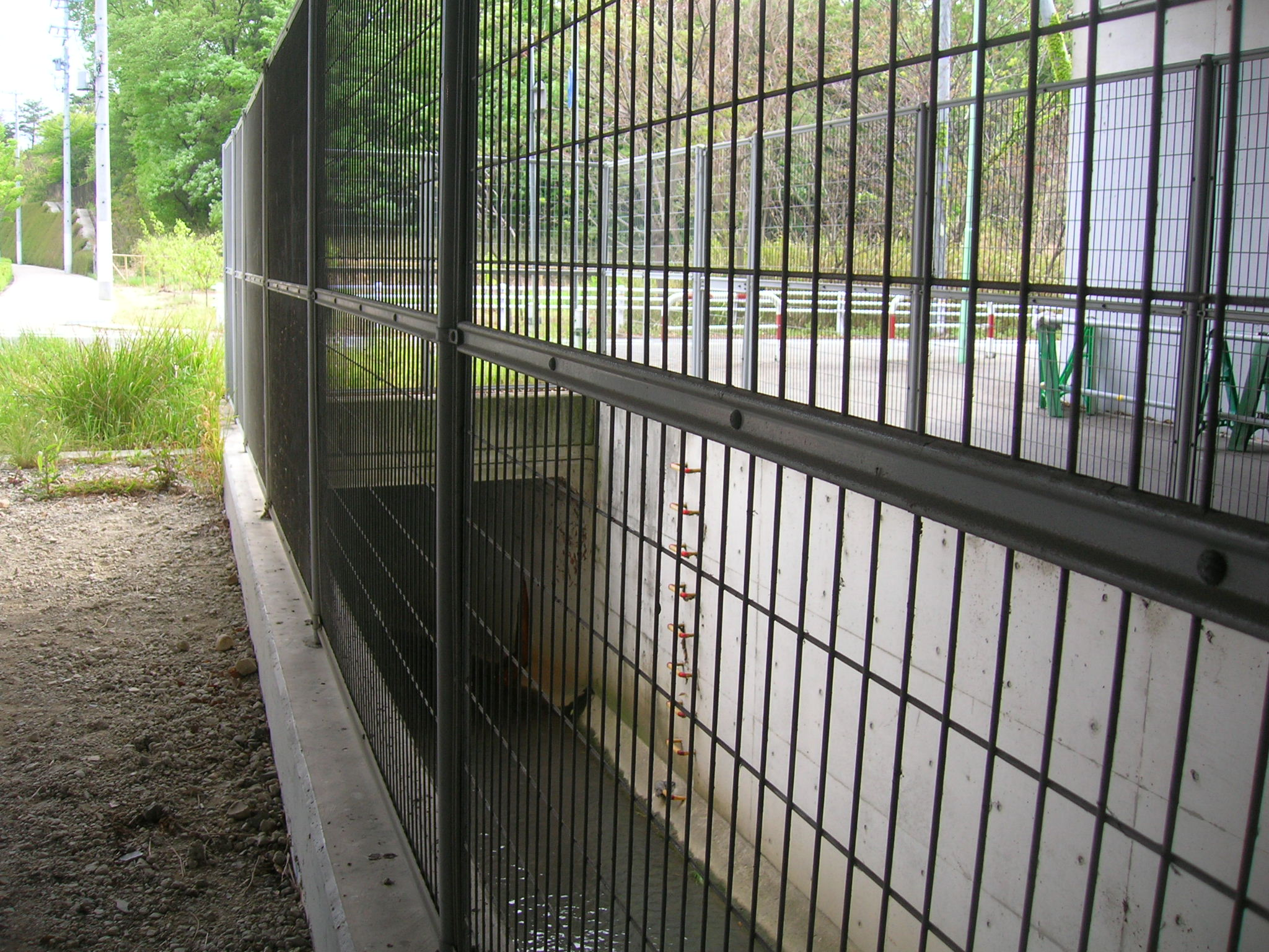 Origin of Ueda river in Aichi prefecture